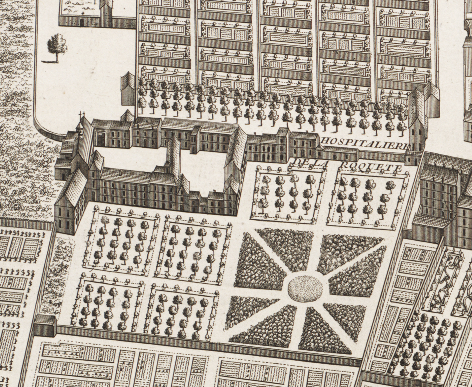 Couvent des Hospitalières de la Roquette on Turgot map of Paris.